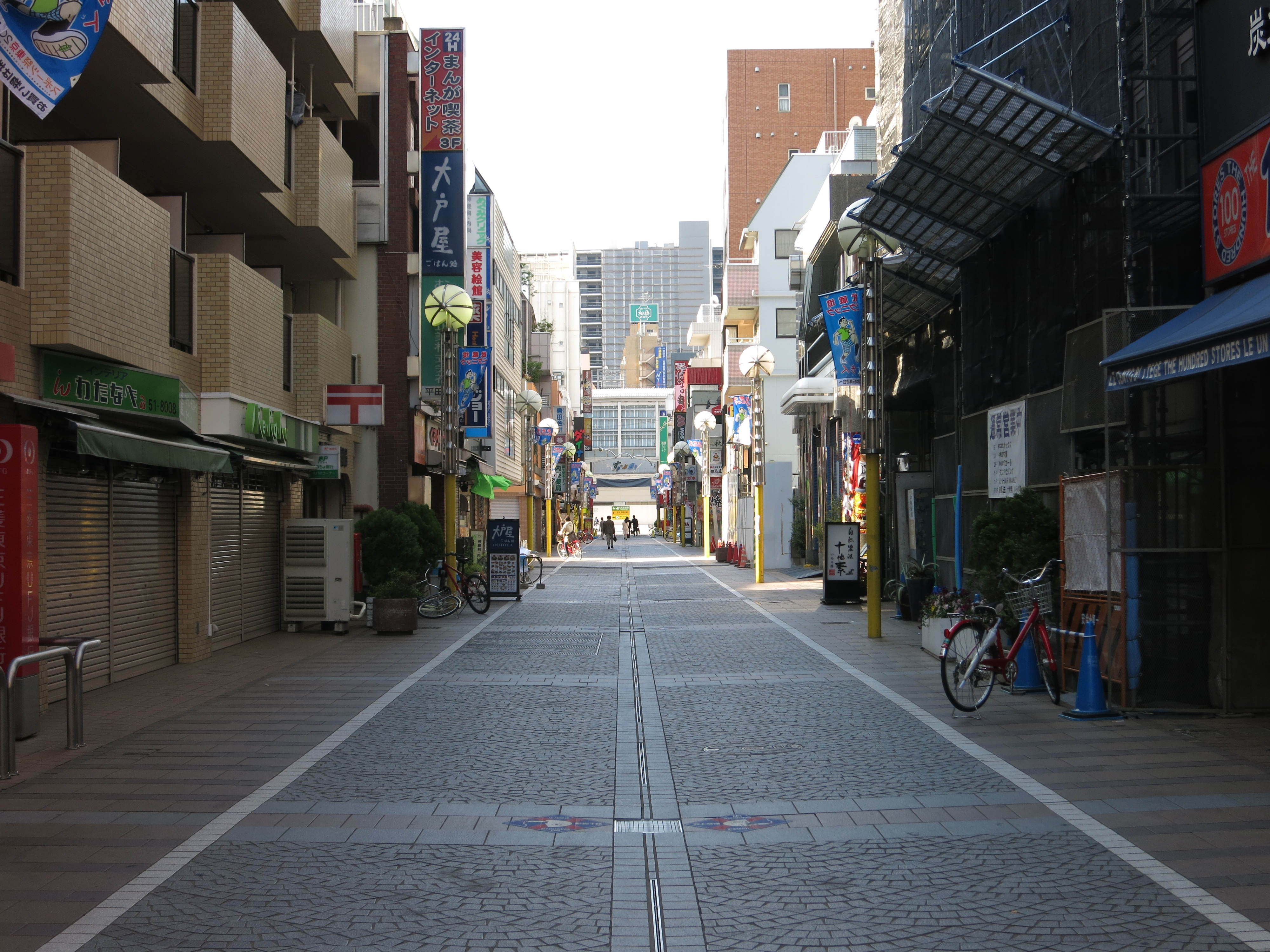 Just north of Musashisakai Station. Musashino, Tokyo, Japan.